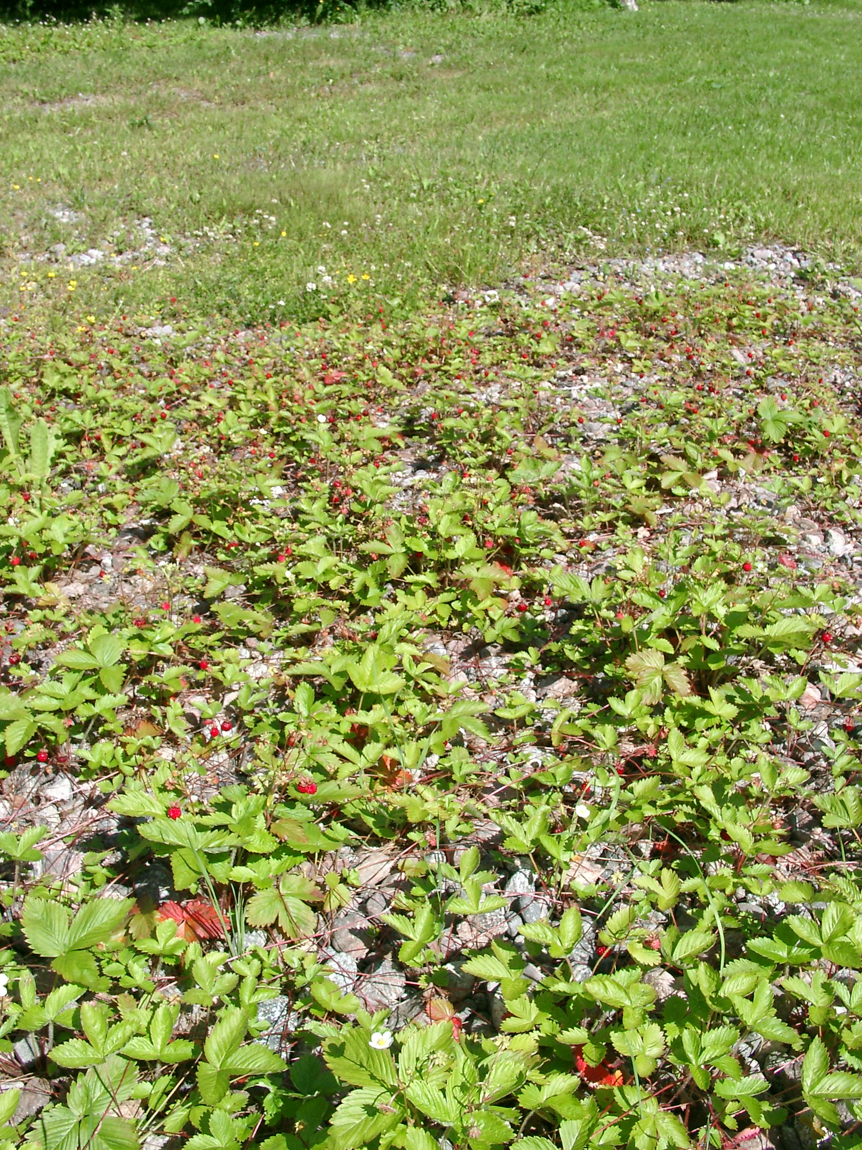 small wild strawberries, smultron in Sweden